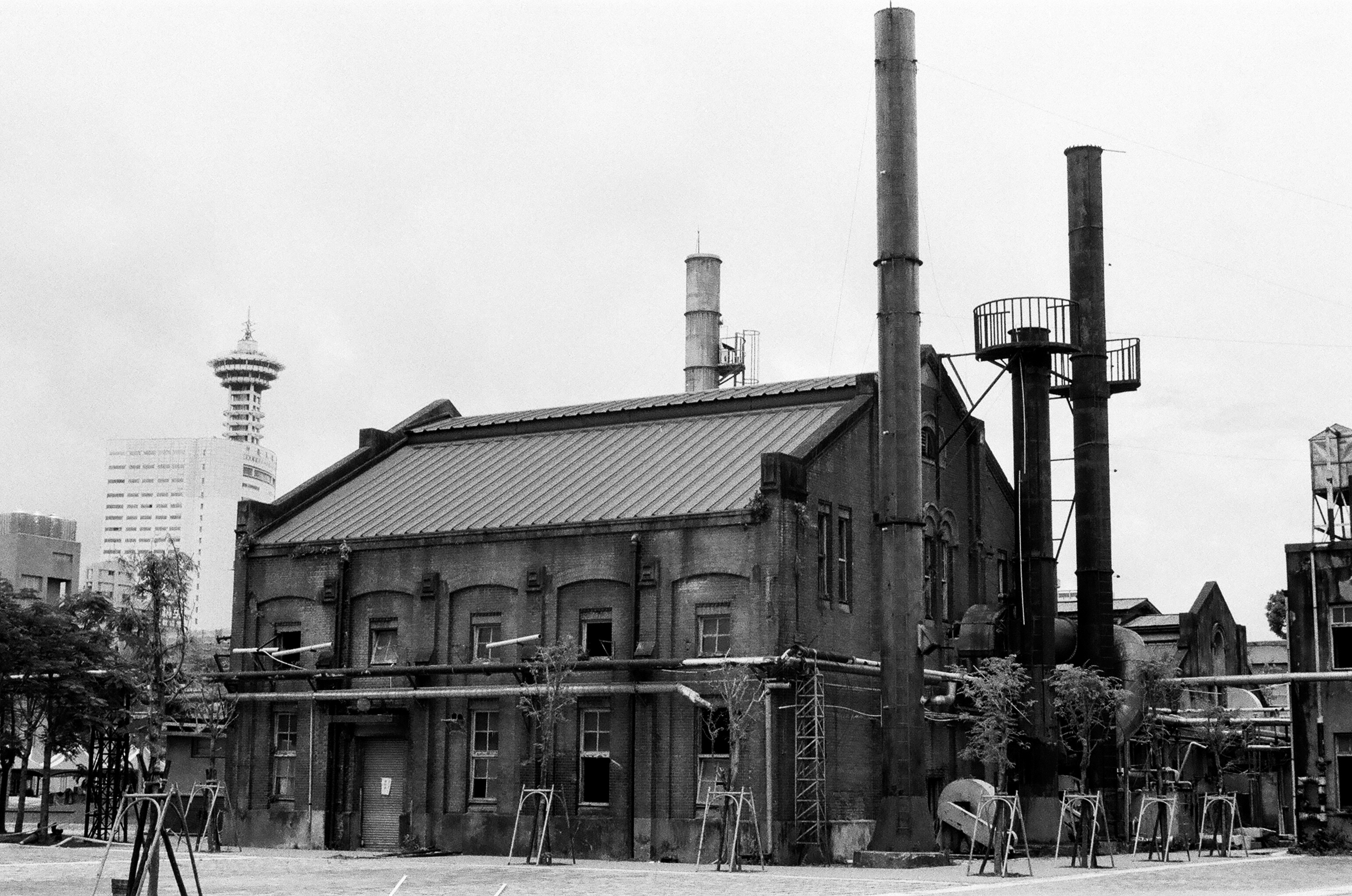 Taichung Cultural & Creative Industries Park.